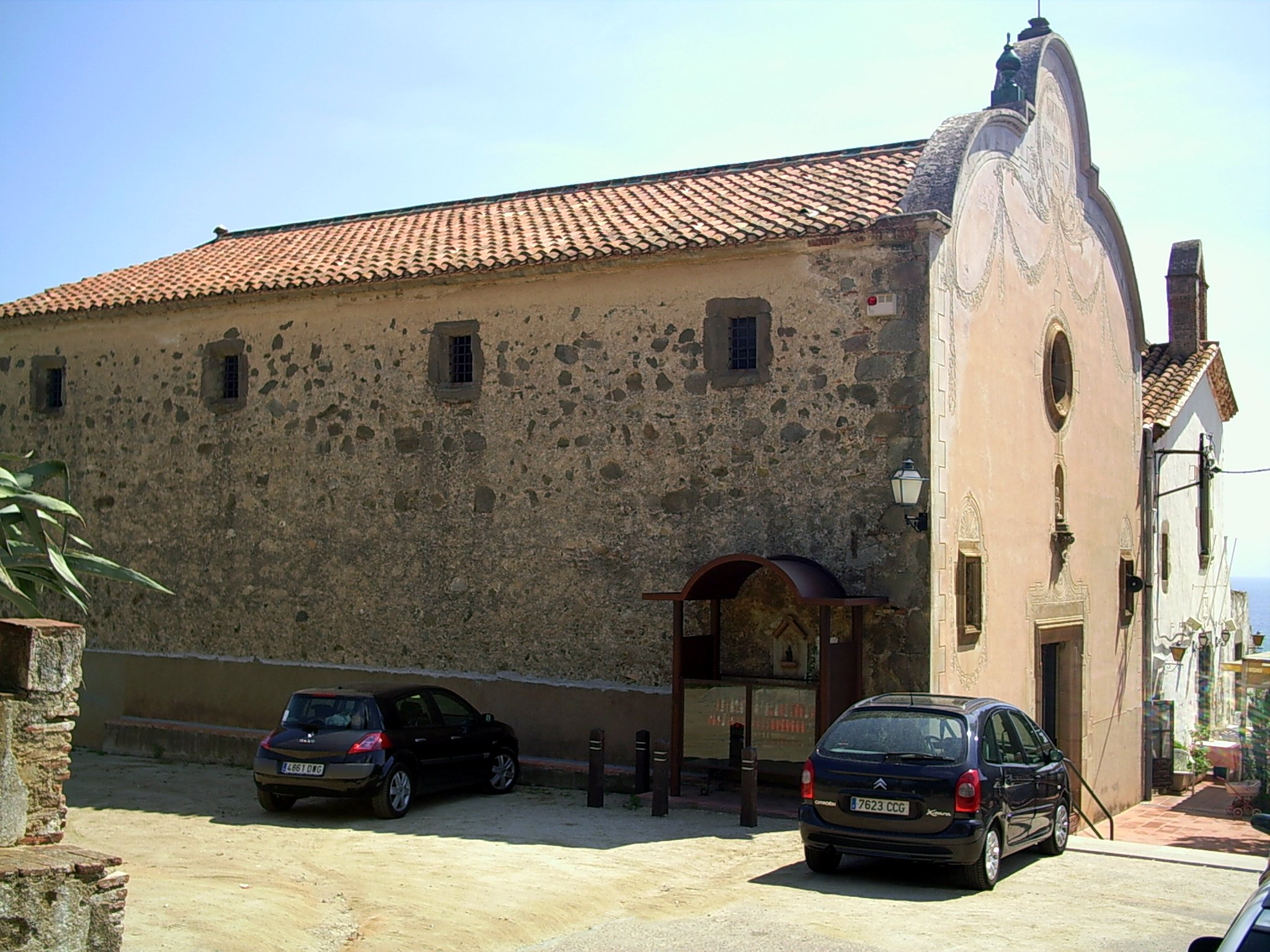 Sanctuary of the Cisa, from 18th century, baroque.